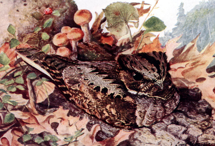 Whip-poor-will, Caprimulgus vociferus, offset reproduction of watercolor